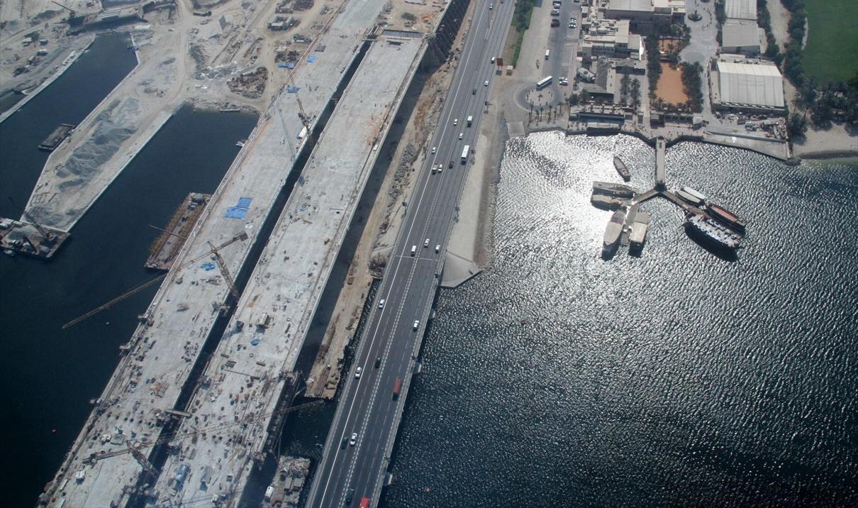 This is a photo showing the New Al Garhoud Bridge (on the left), crossing Dubai Creek in Dubai, United Arab Emirates, on 18 October 2007. The original Al Garhoud Bridge is on the right. This photo was taken from a helicopter ride courtesy of Nakheel.